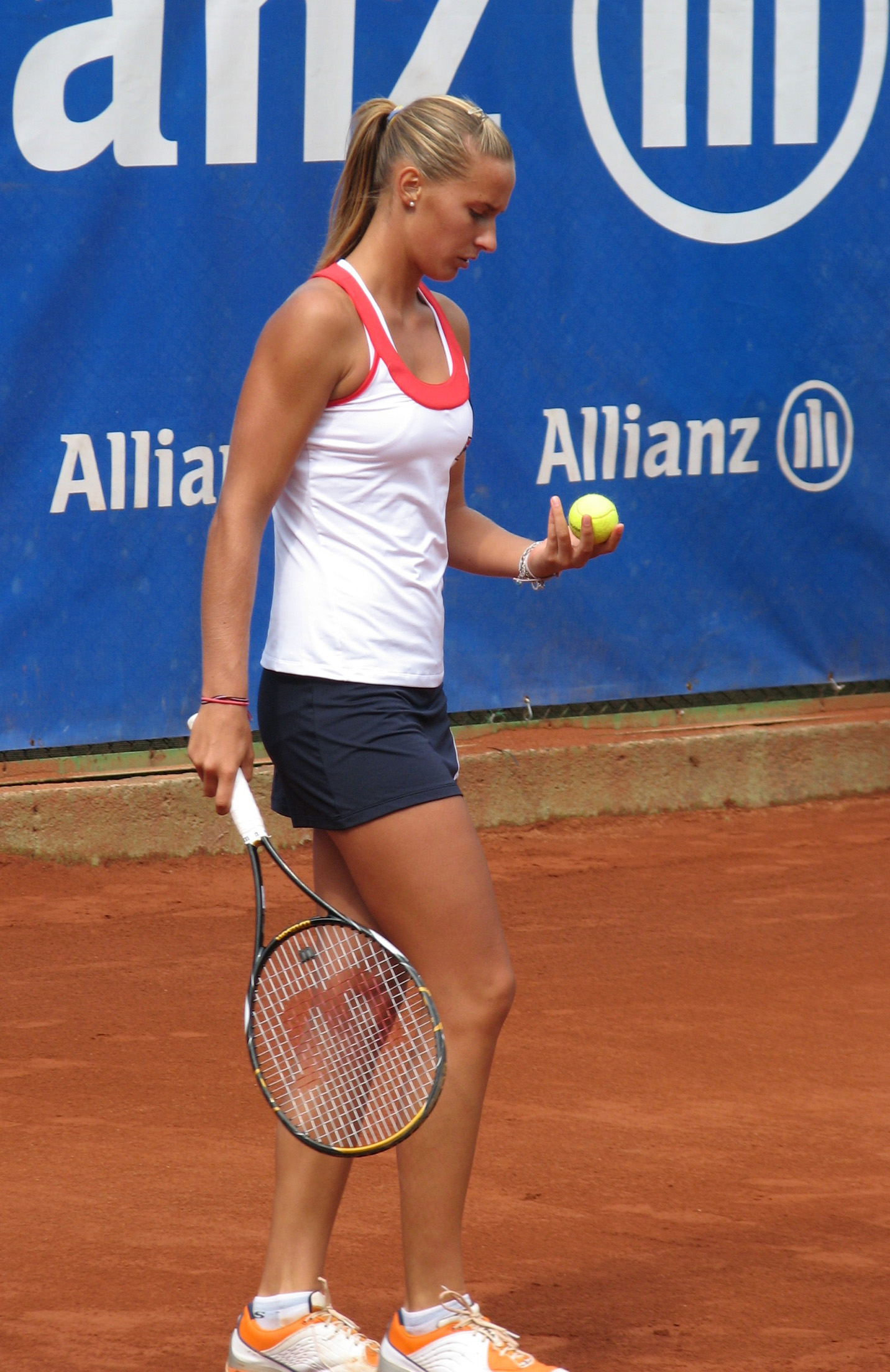 Polona Hercog (Allianz Cup 2009)